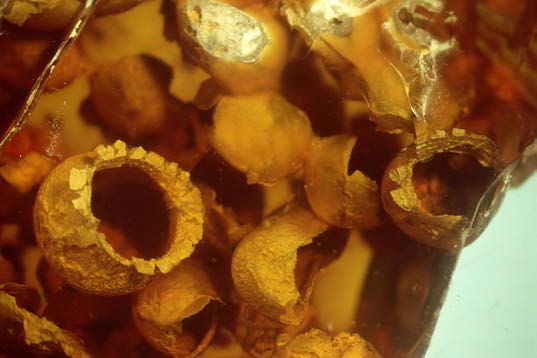 Sporophores of the gasteroid fungus, Palaeogaster micromorpha, in Burmese amber.